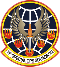 Unit insignia of the 15th Special Operations Squadron, US Air Force (for the design history see the talkpage)